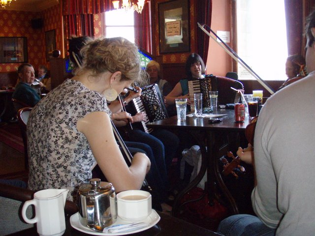 Dòchas session in the Stromness Hotel This session is part of the 2008 Orkney Folk Festival and the band Dòchas are the heart of the session. Having said that only two members of the band are visible namely Carol-Anne Mackay playing accordion and Julie Fowlis right hand side by the fiddler's shoulder. Lots of other local and visiting musicians had joined the session. The entertainment was brilliant.